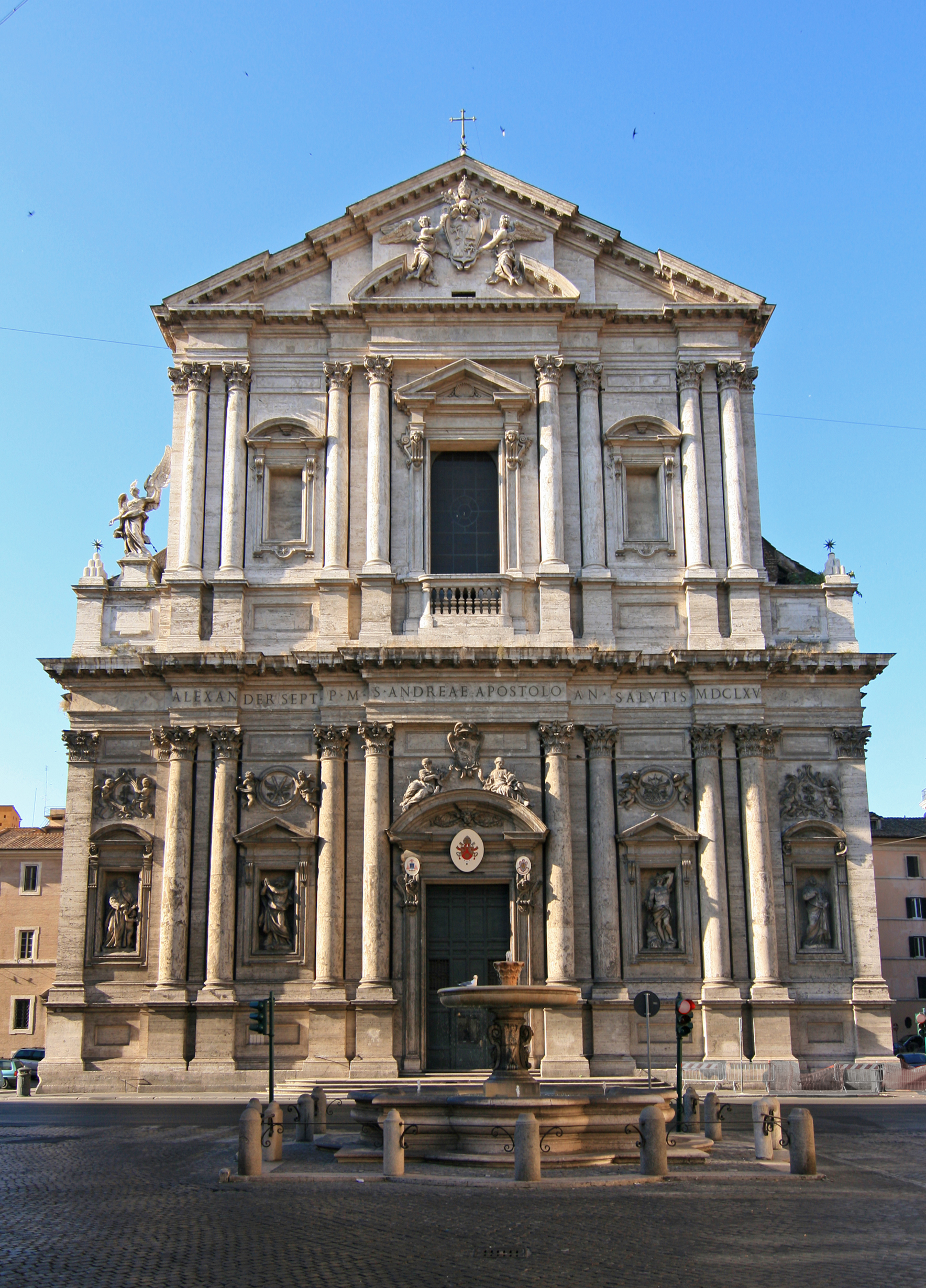 Church of Sant'Andrea della Valle, Rome.